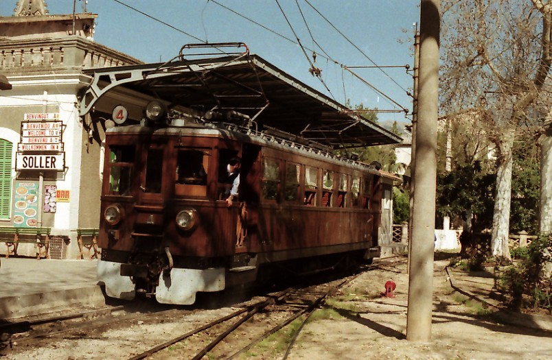 The electric traction No. 4 of Ferrocarril de Sóller.